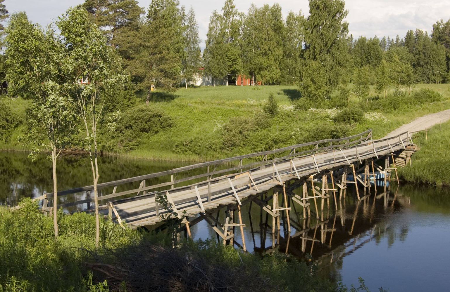 Wooden trestle bridge at Rinnetie road, crossing over the Nuorittajoki river in Jokikokko, Ylikiiminki municipality, Finland.